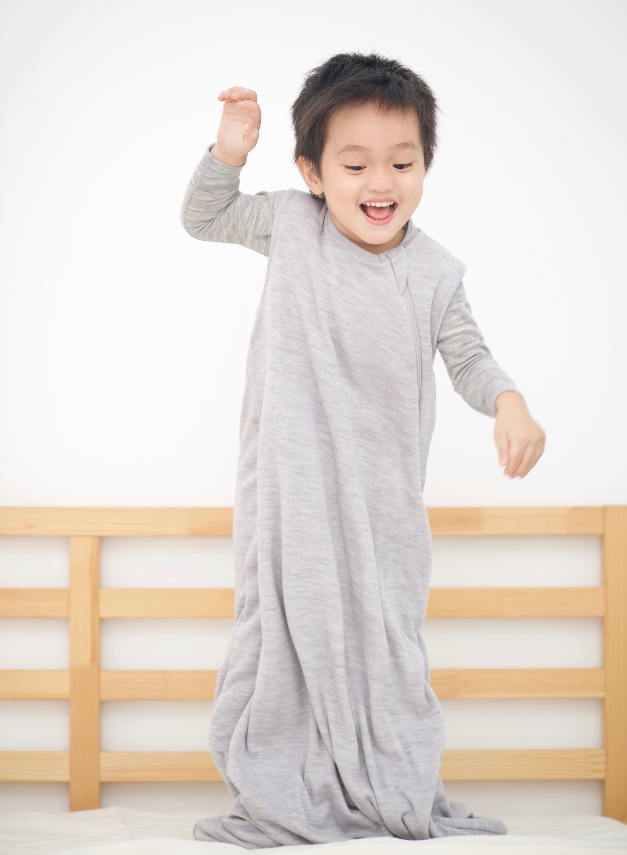 Woolrex baby sleeping bag made of merino wool for all seasons